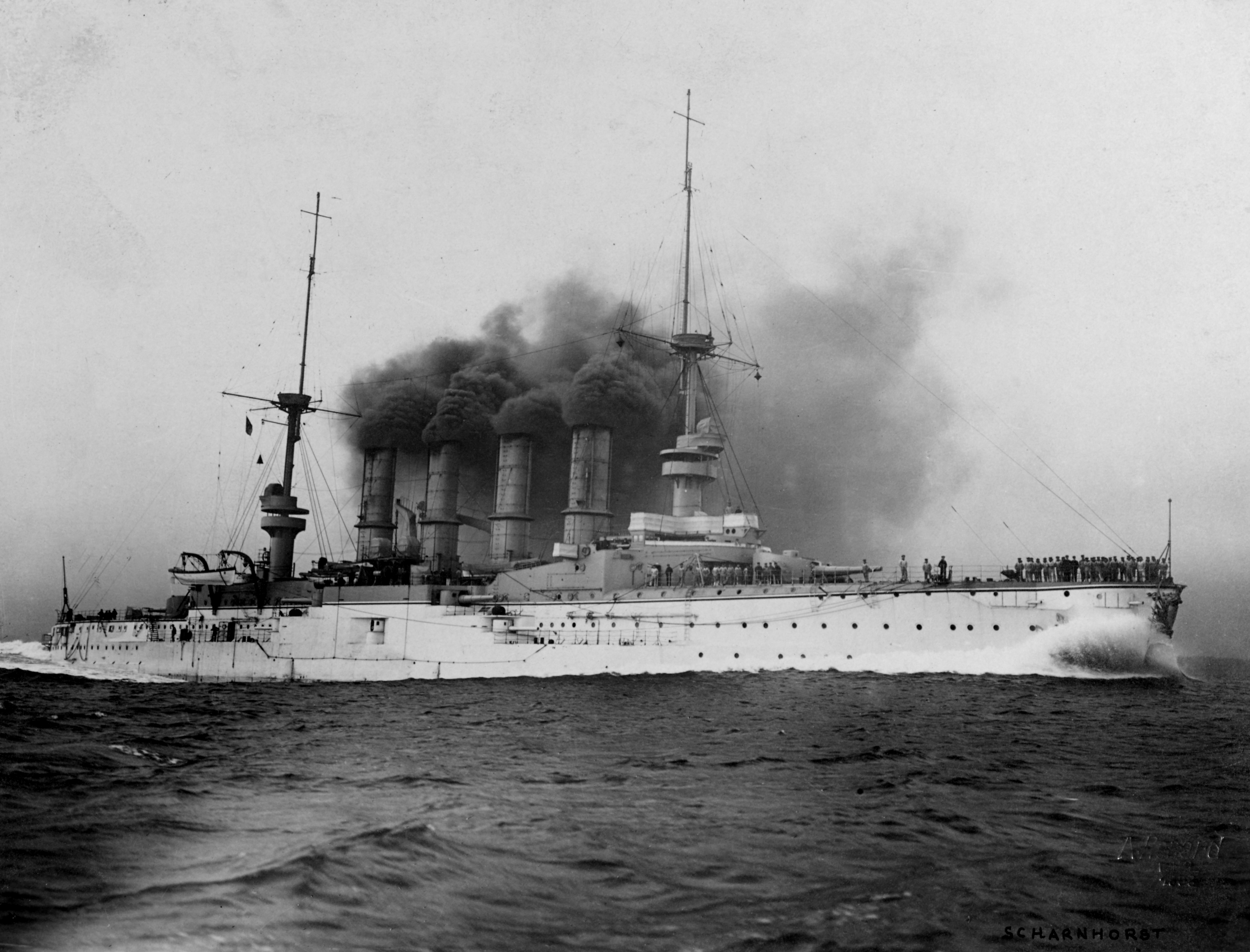 Cruiser SMS Scharnhorst (1906–1914), German Imperial Navy